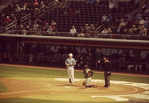 Skye Bolt bats for the University of North Carolina Tar Heels during a 2013 game.